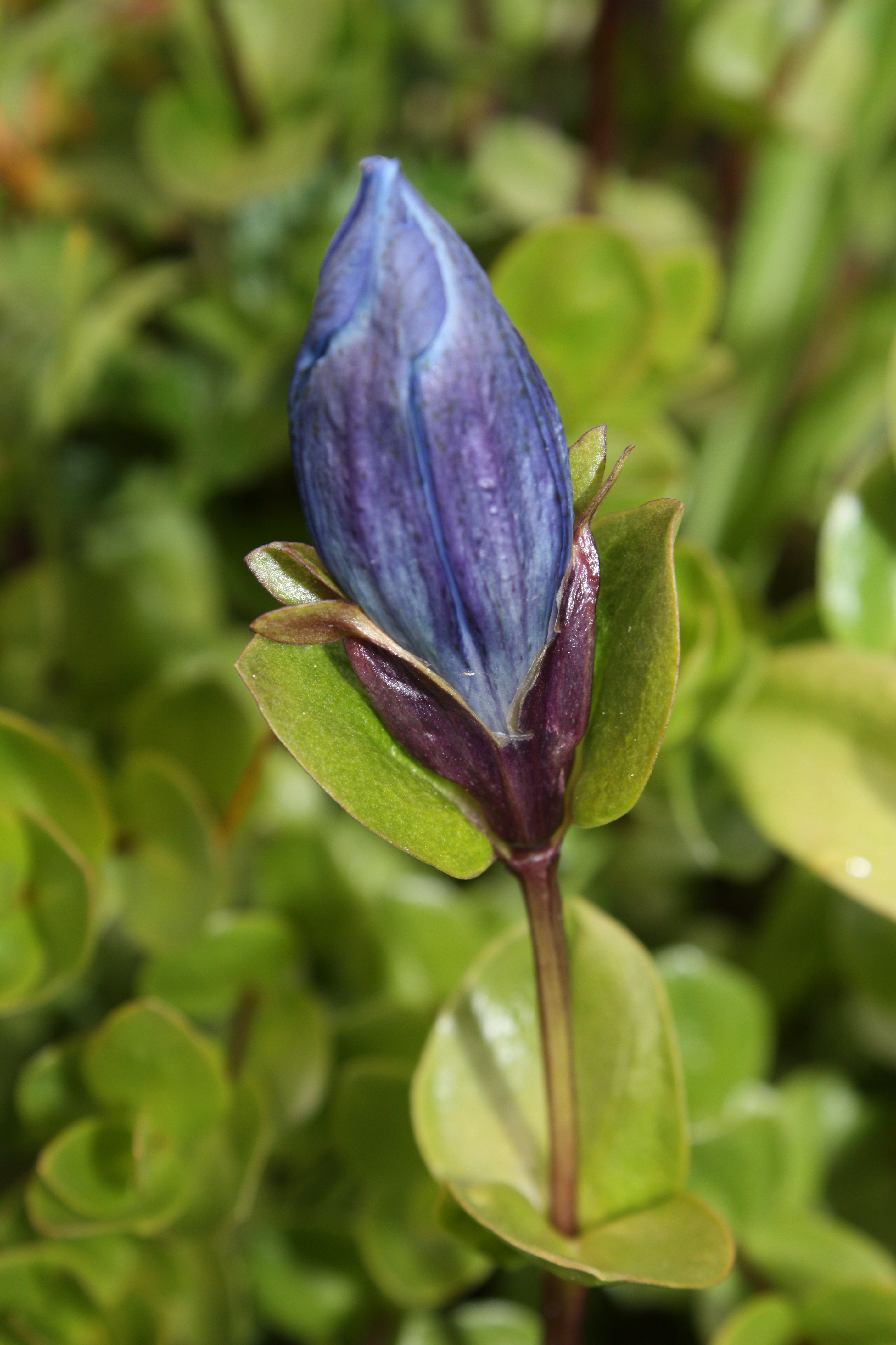 Rainier Pleated Gentian, Explorer's Gentian, Mountain Bog Gentian